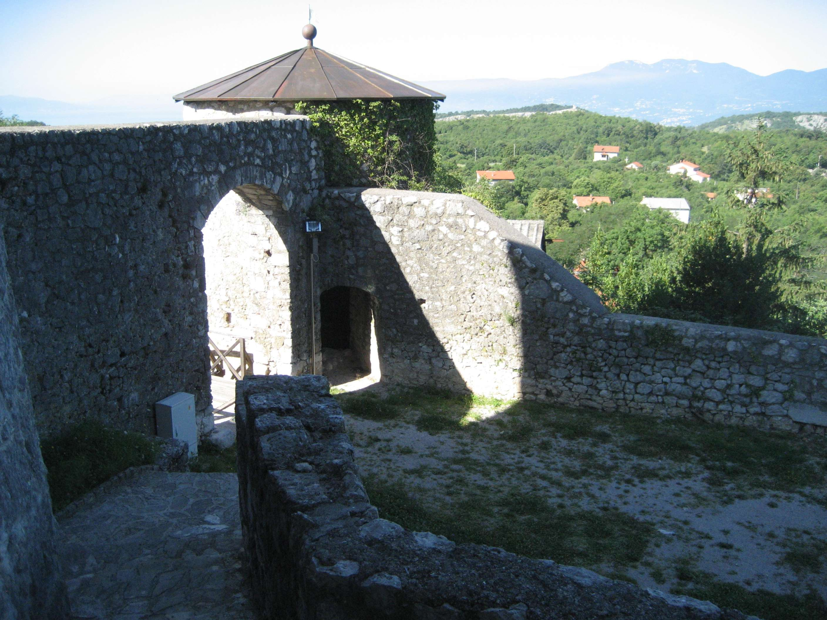 Castle Grobnik, Croatia